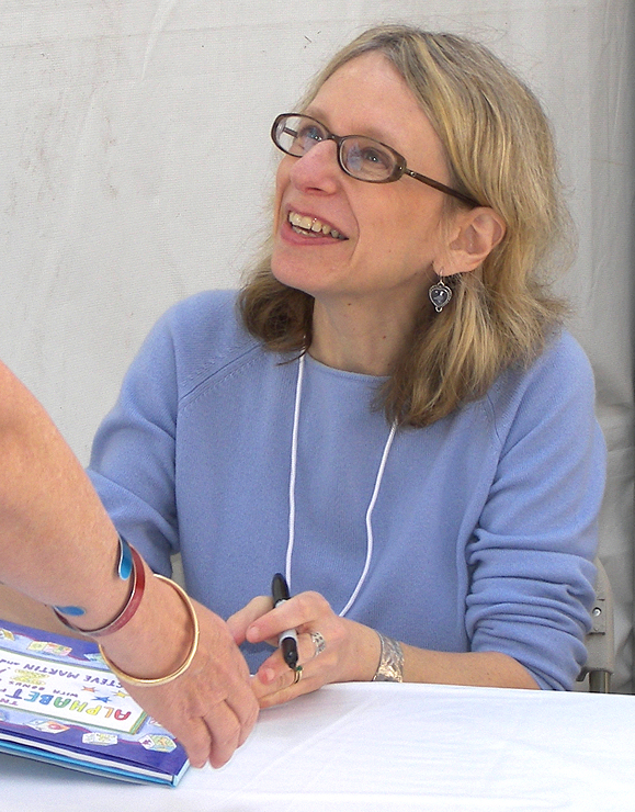 Author Roz Chast at the 2007 Texas Book Festival, Austin, Texas, United States.